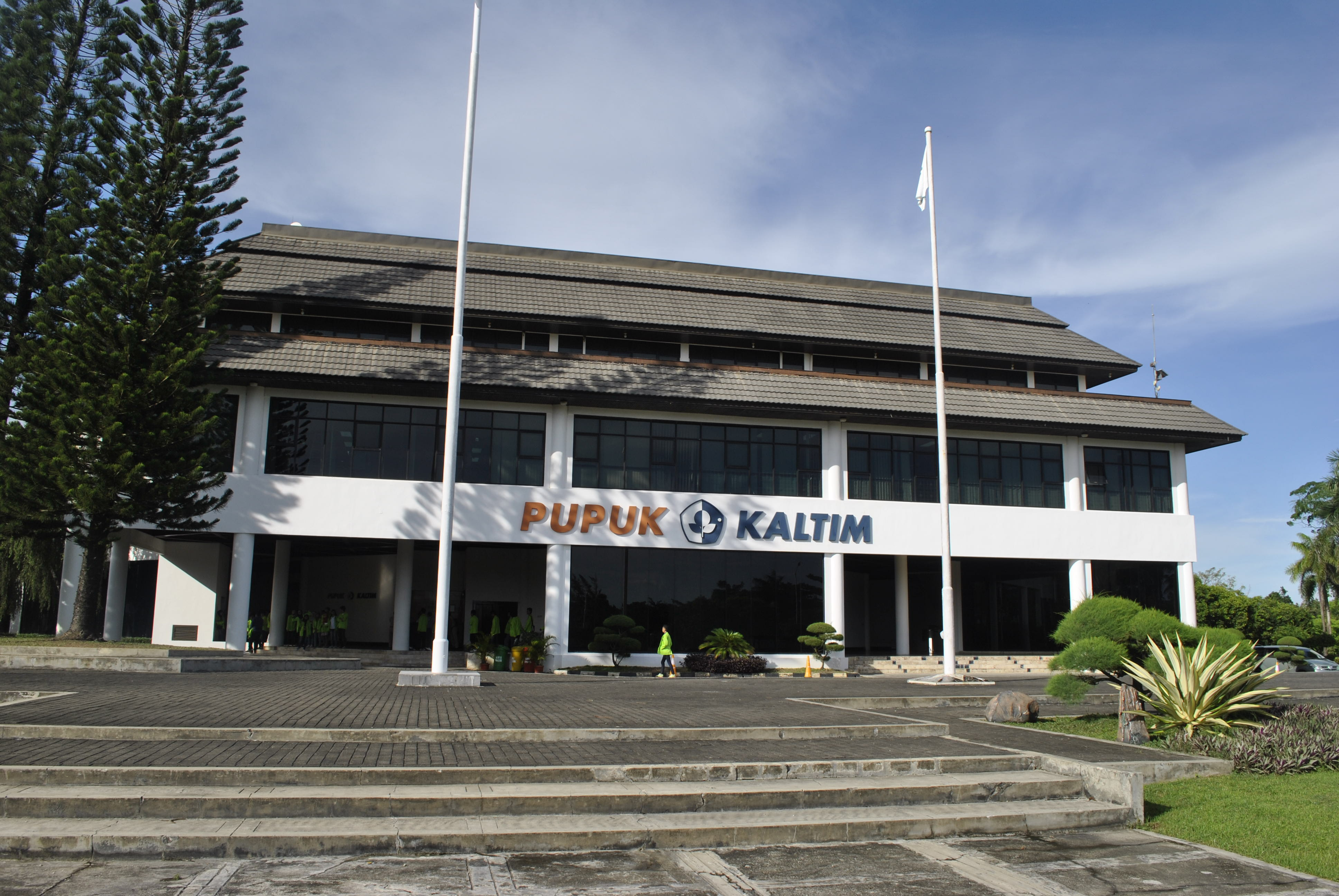 Office building of Pupuk Kaltim company in Bontang, East Kalimantan, Indonesia.